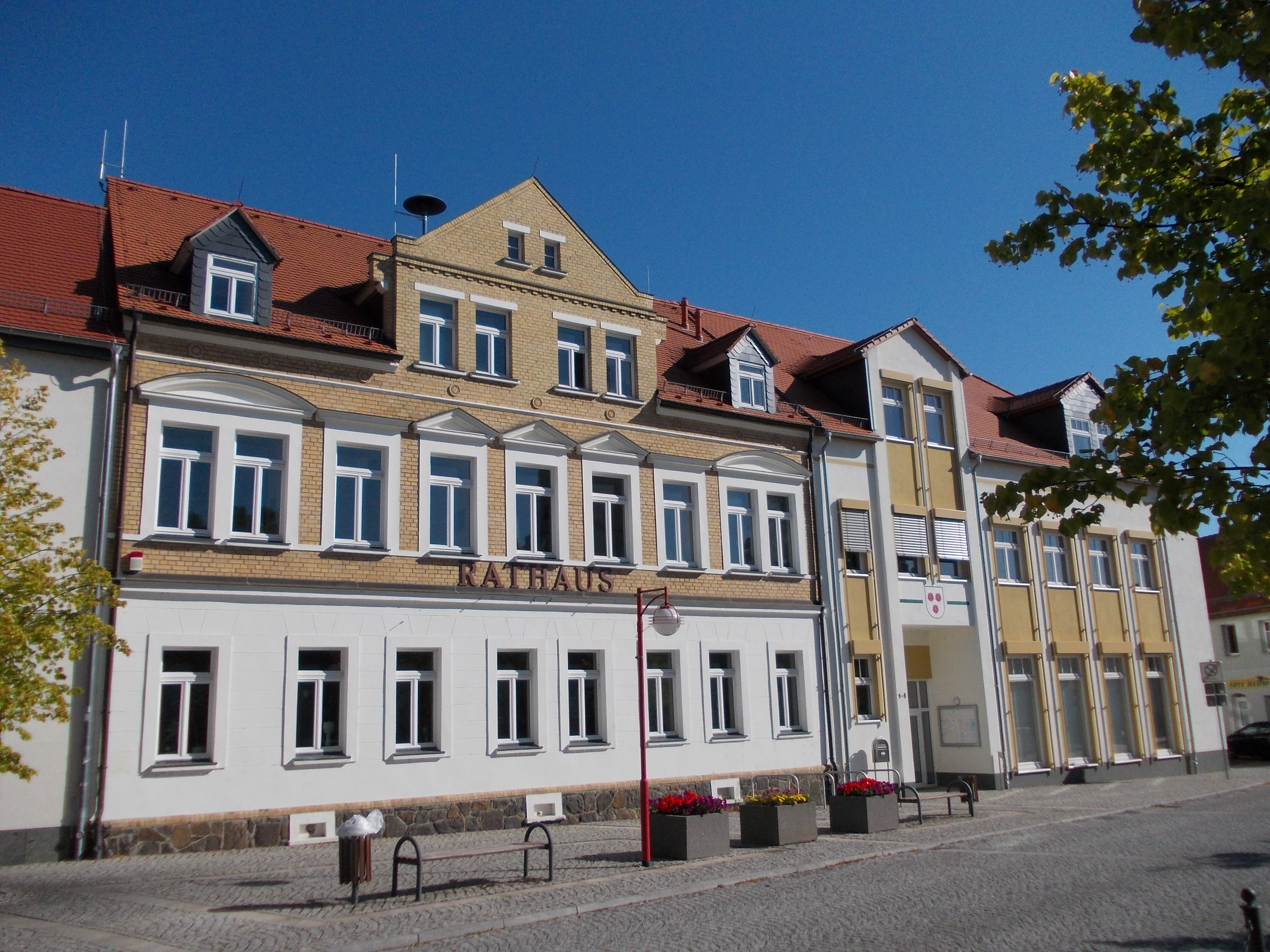 Brandis town hall (Leipzig district, Saxony)